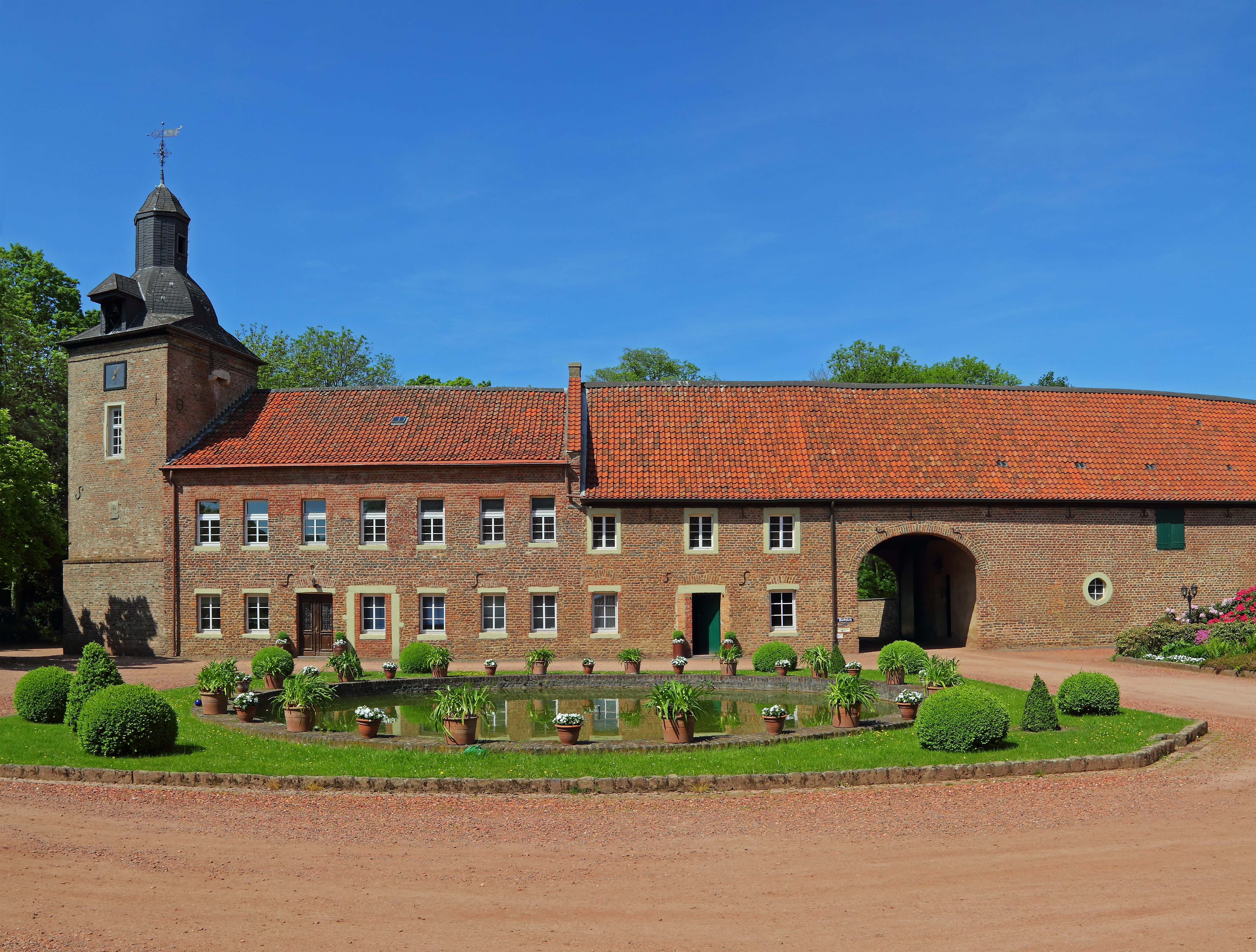 Loersfeld Castle in Kerpen. Outer ward with fountain in the foreground.